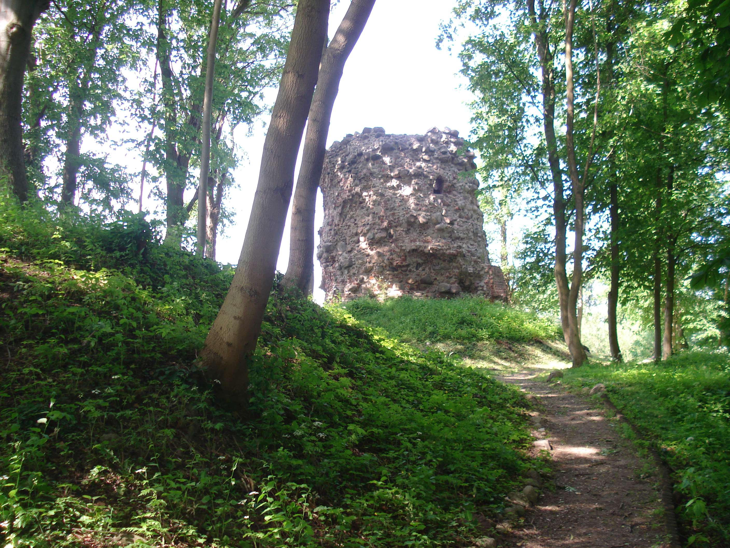 Oubliette in Wasdow